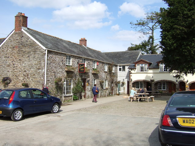 The Crooked Inn, Stoketon There's a good few farm animals wandering around the grounds of this inn - especially ducks - and they're ducks with attitude too !